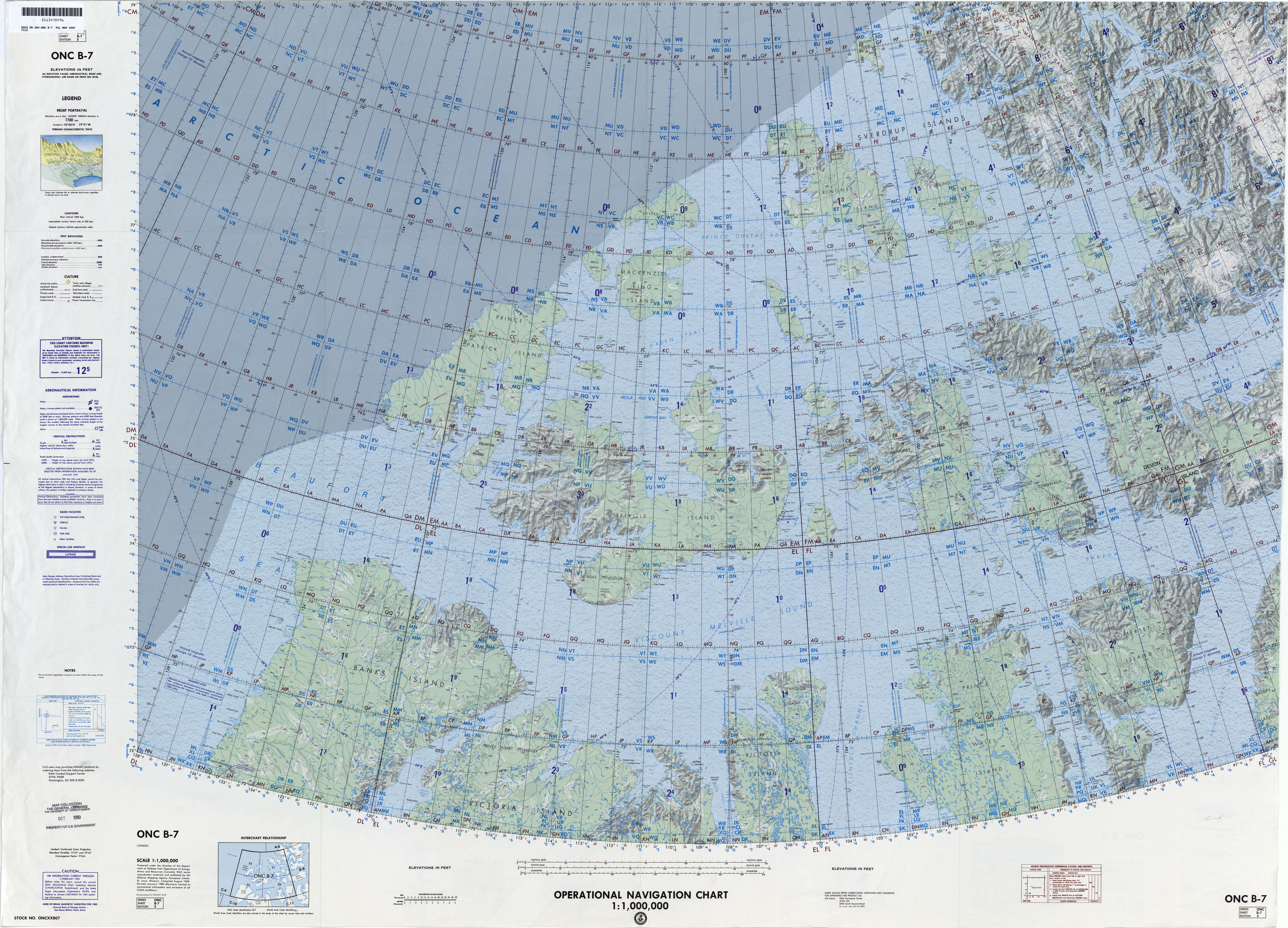 1:1,000,000 scale Operational Navigation Chart, Sheet B-7, 5th edition. Covers Canada. Lambert Conformal Conic Projection. Standard Parallels 72 20N and 78 40N. Central longitude 108 45W.